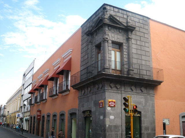 House of La China Poblana in Puebla